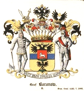 Coat of Arms of Baranoff family